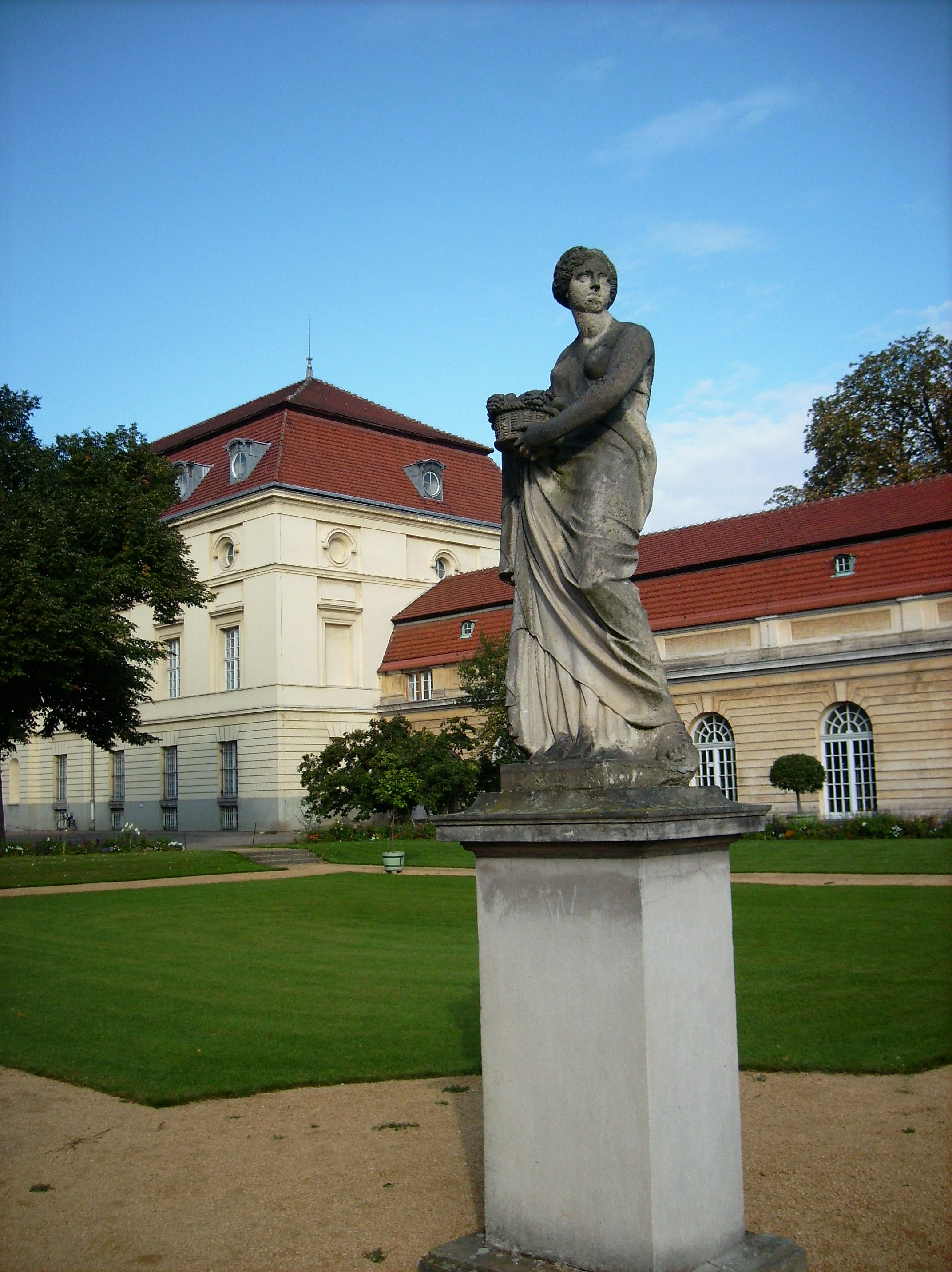 Sculpture in front of Charlottenburg Palace in Berlin